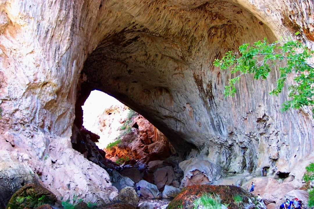 Tonto Natural Bridge in the Tonto Natural Bridge State Park just north of Payson, AZ. Largest natural bridge in North America, and possibly the largest natural travertine bridge in the world.